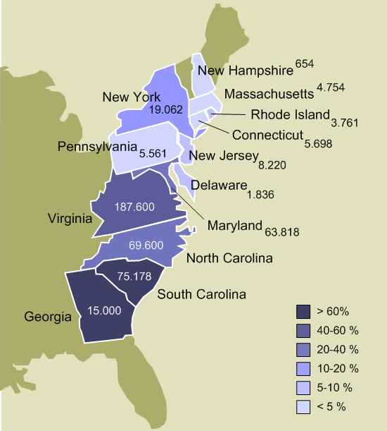 Map of the 13 colonies; numbers = numbers of slaves (1770), colors = percentage of population enslaved. Data Sources: (dead link) Ira Berlin: Generations of Captivity: A History of African-American Slaves (2003) [page needed, a search for the oddly-specific number "75,178" yields no result[1]